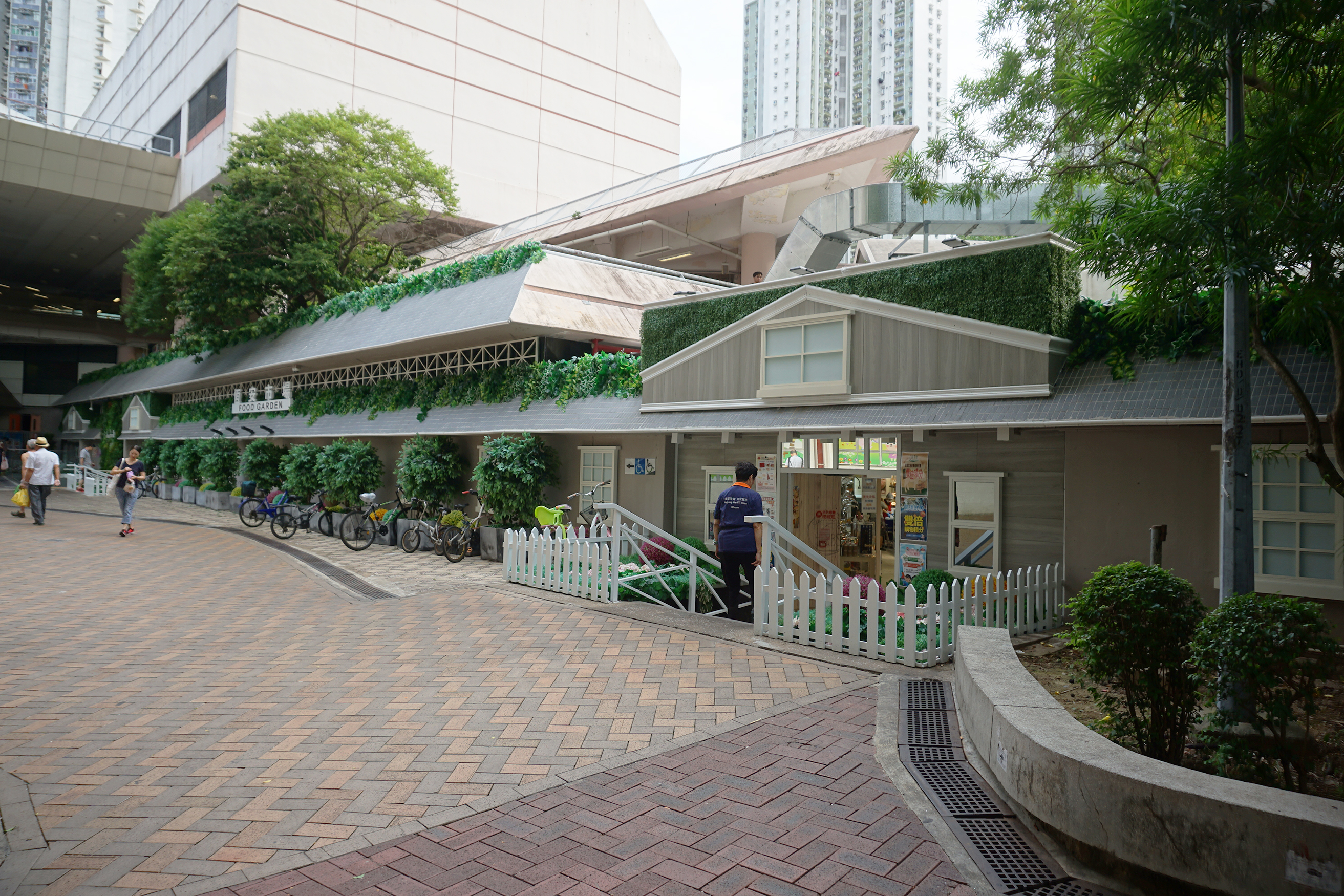 Food Garden in Heng On, Hong Kong.